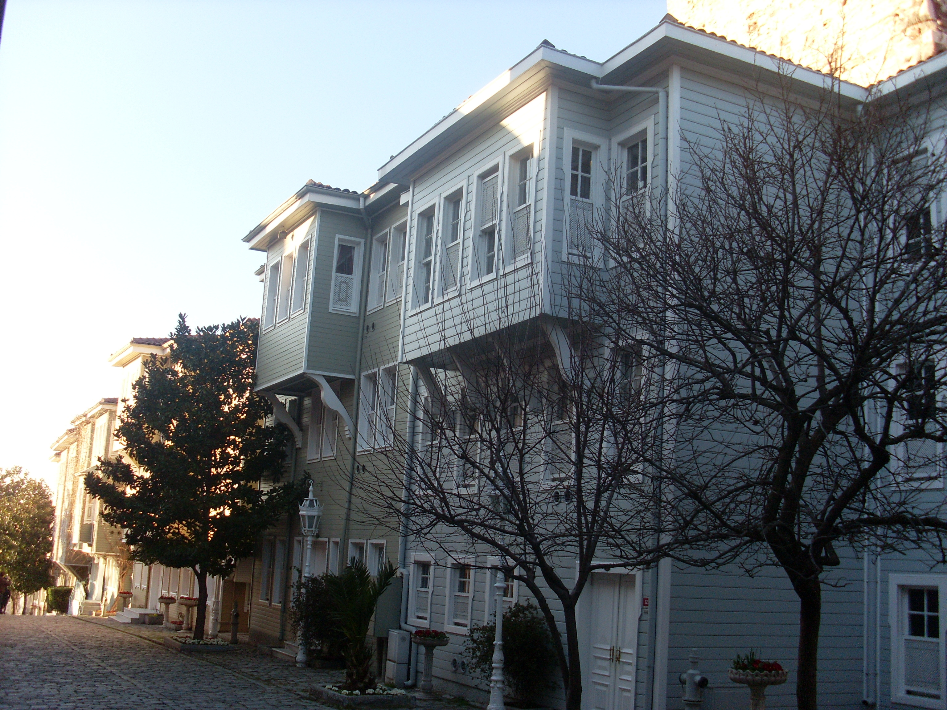 İstanbul - Soğukçeşme Sokağı r7 - Mar 2013